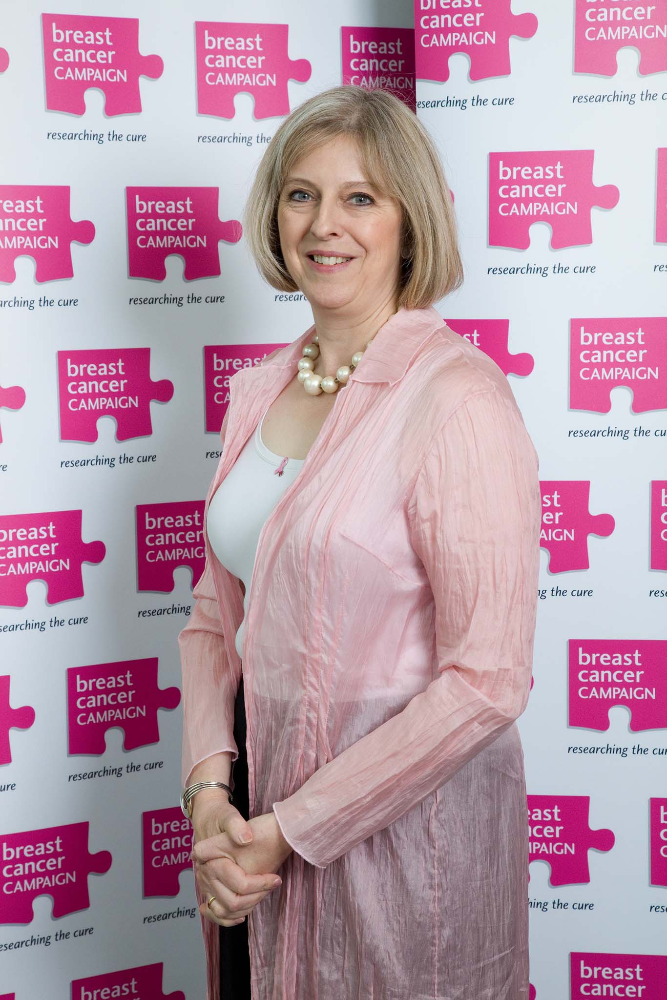 Theresa May wears pink for Breast Cancer Campaign